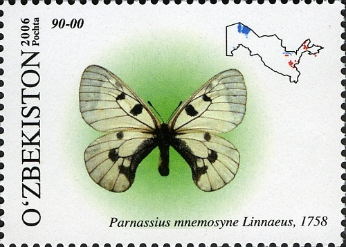 Stamps of Uzbekistan, 2006